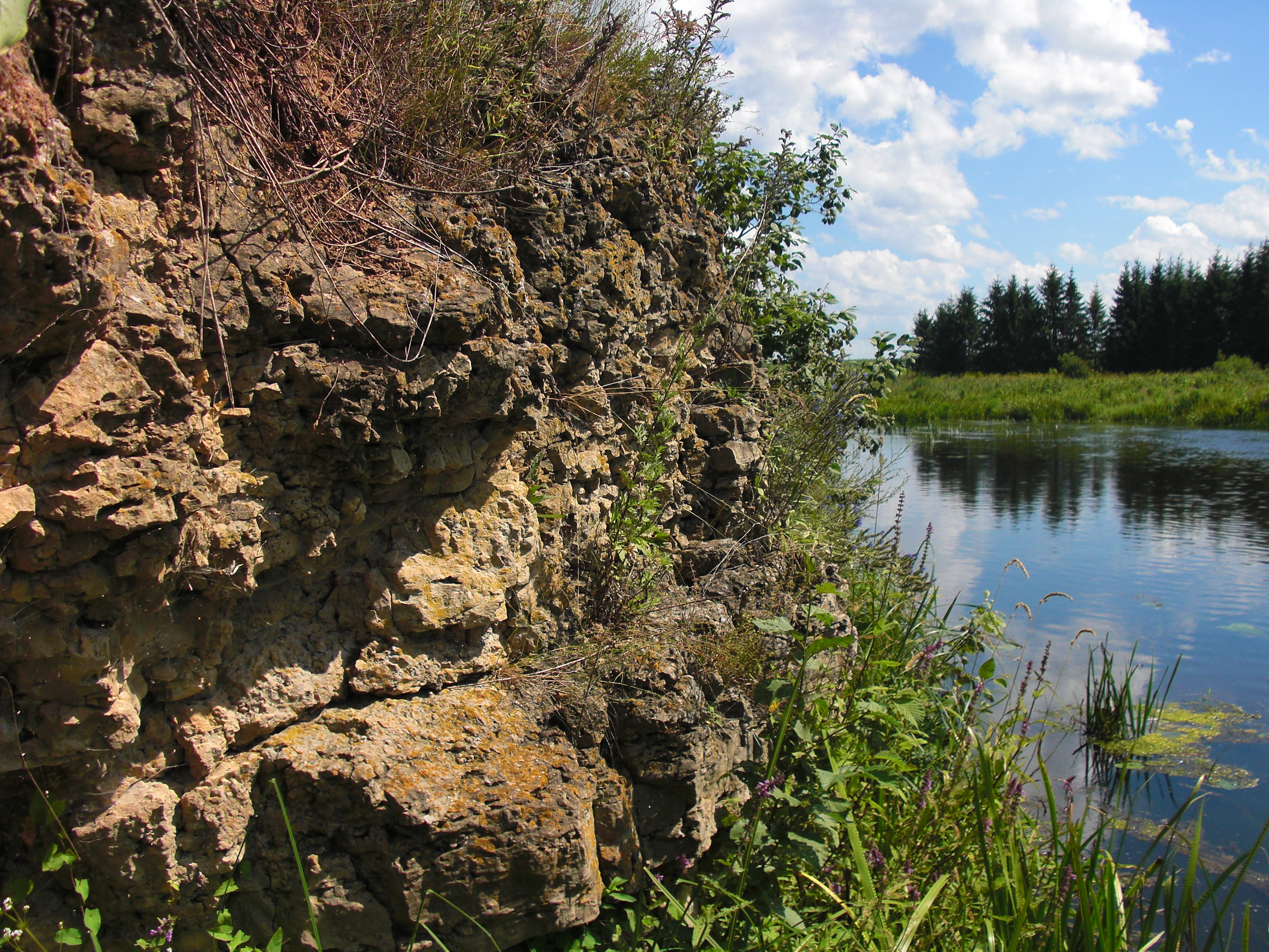 Mūša River outcrop in Raudonpamūšis, Pakruojis district, Lithuania